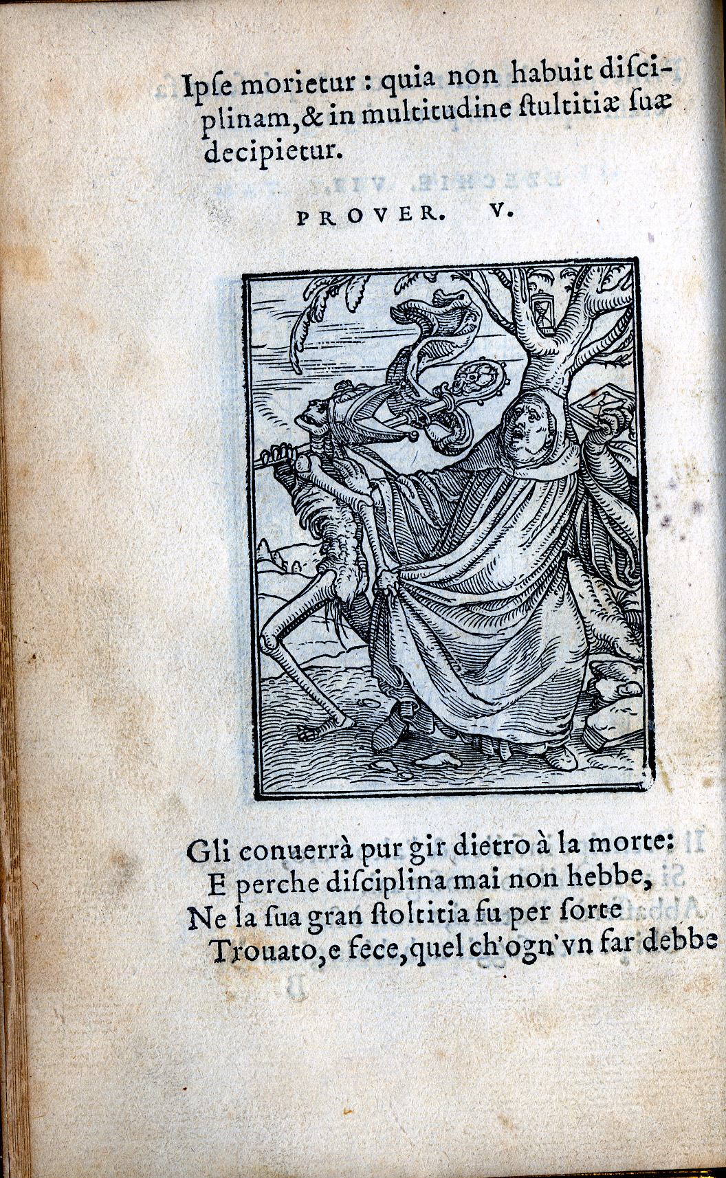 Hans Holbein, Simolachri, Historie, e Figure de la Morte. In Lyone Appresso. Giovan Frellone, M.D. XLIX. (1549)